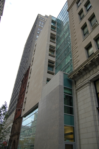 The Frank and Mary Macchiarola Academic Center at St. Francis College.